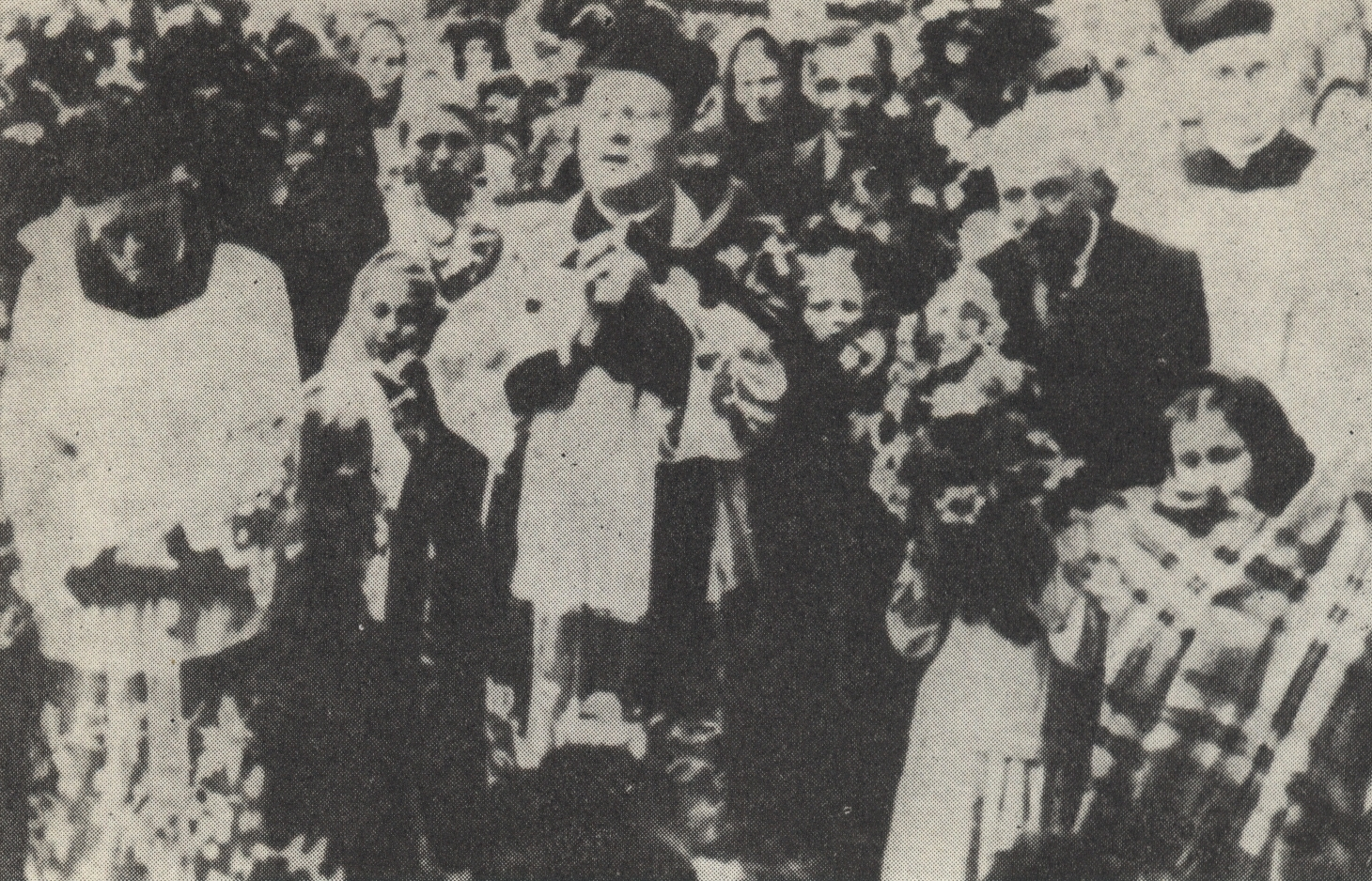 Funeral of victims of Ochotnica massacre. On so-called “Bloody Eve” (23rd December 1944) SS troops partially burned Ochotnica and murdered 56 of its inhabitants. This photo was taken the day after the massacre by Polish partisan (nom de guerre „Ibis”).